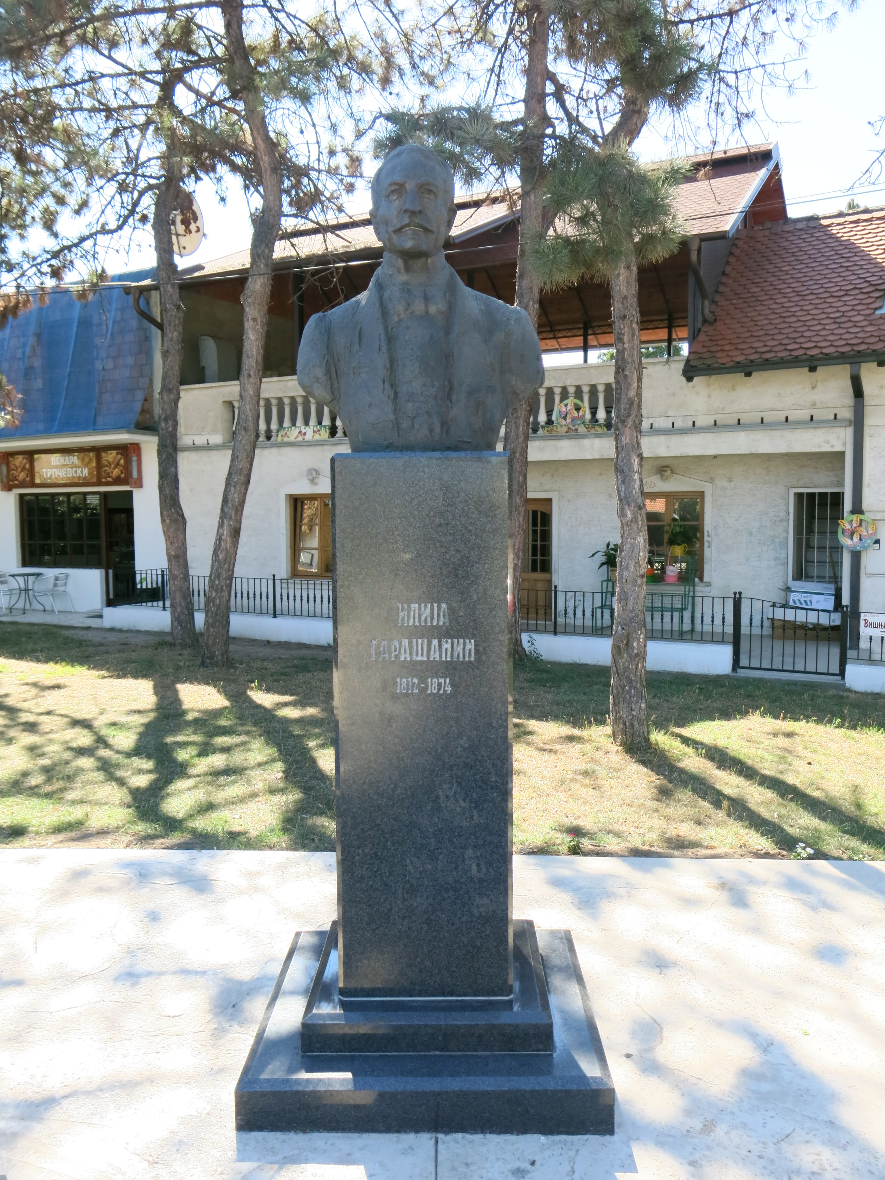 Grocka, Bust of Ilija Garašanin